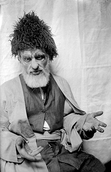 Charski as Allahverdi in "In 1905". Baku Workers Theater.